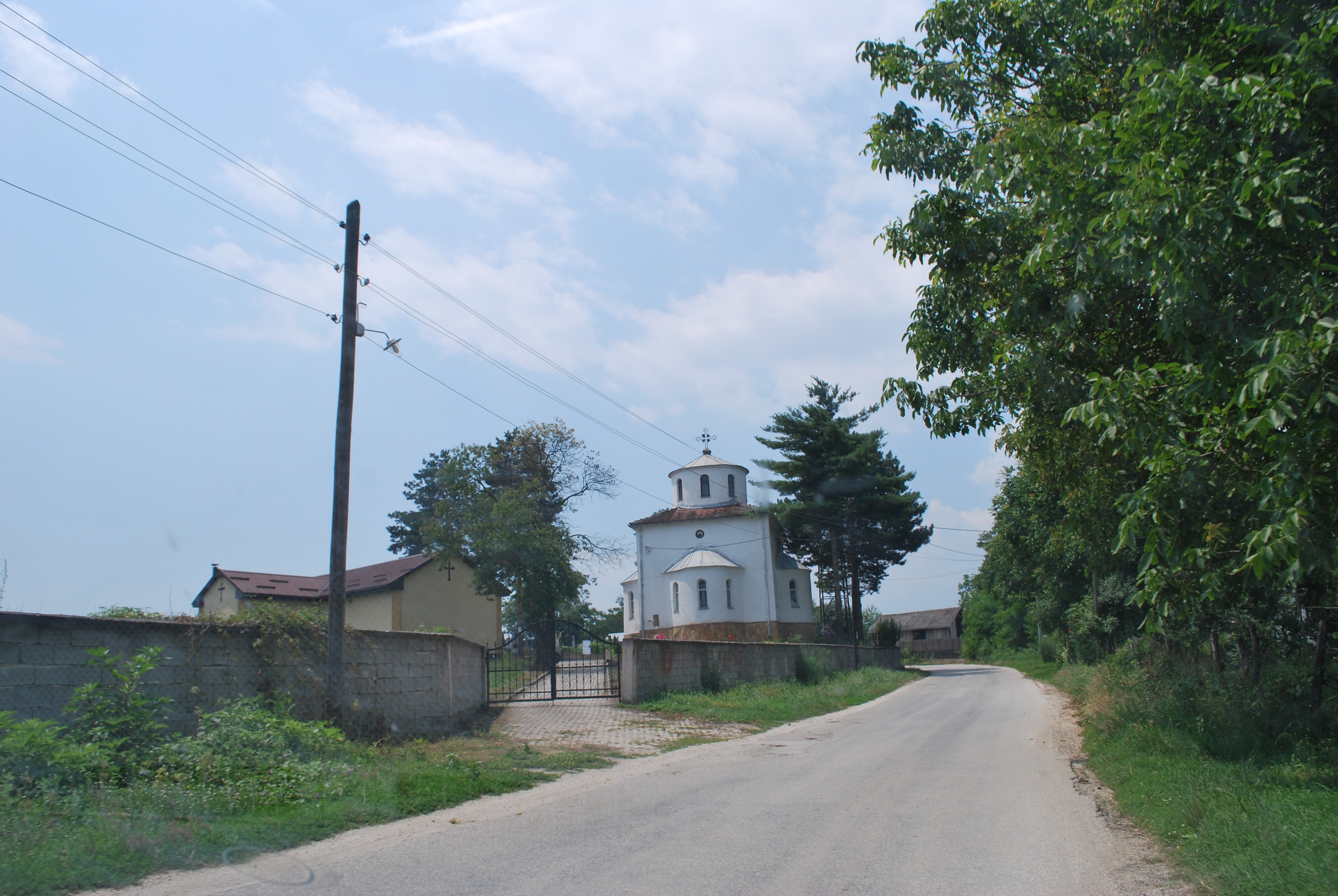 St. Theodore of Amasea Church (Theodore Tyron) in Jenčište, Macedonia